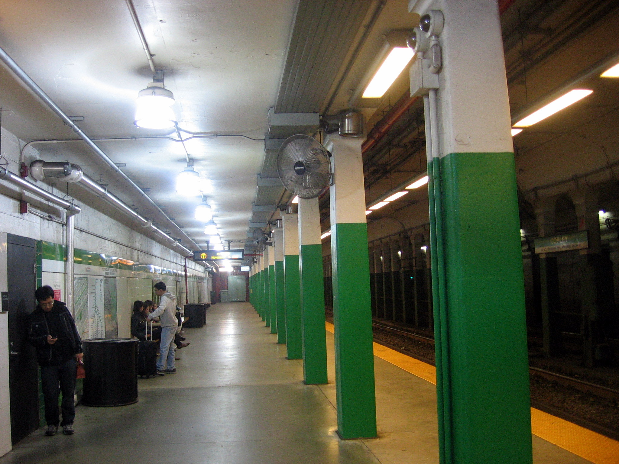 Outbound platform at Copley